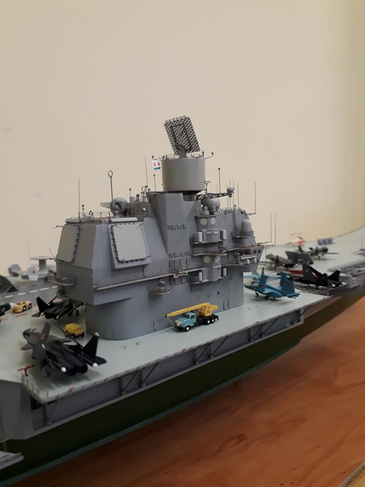 Модель ТАКР "Ульяновск" (фрагмент).